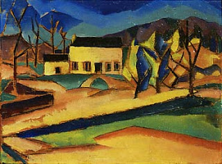 Oil, painted by Charles Sheeler, first exhibited in the Armory Show in 1913.